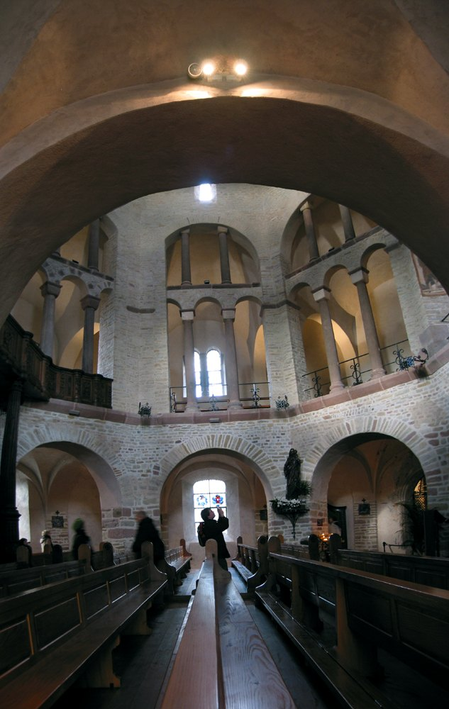 Inside of the church in Ottmarsheim, france